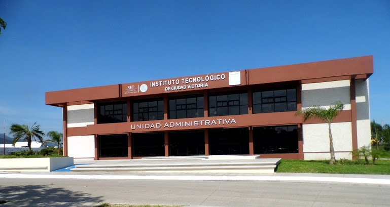 Unidad Administrativa del Tec Victoria